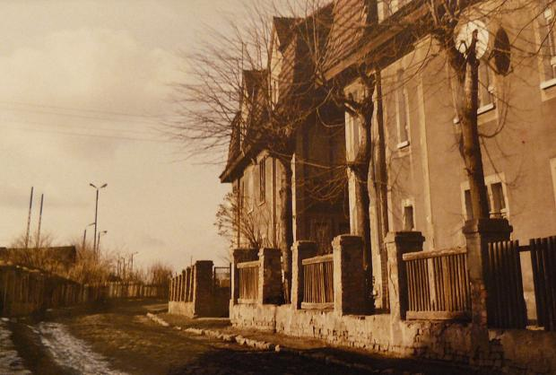 Poznan (part Rudnicze).